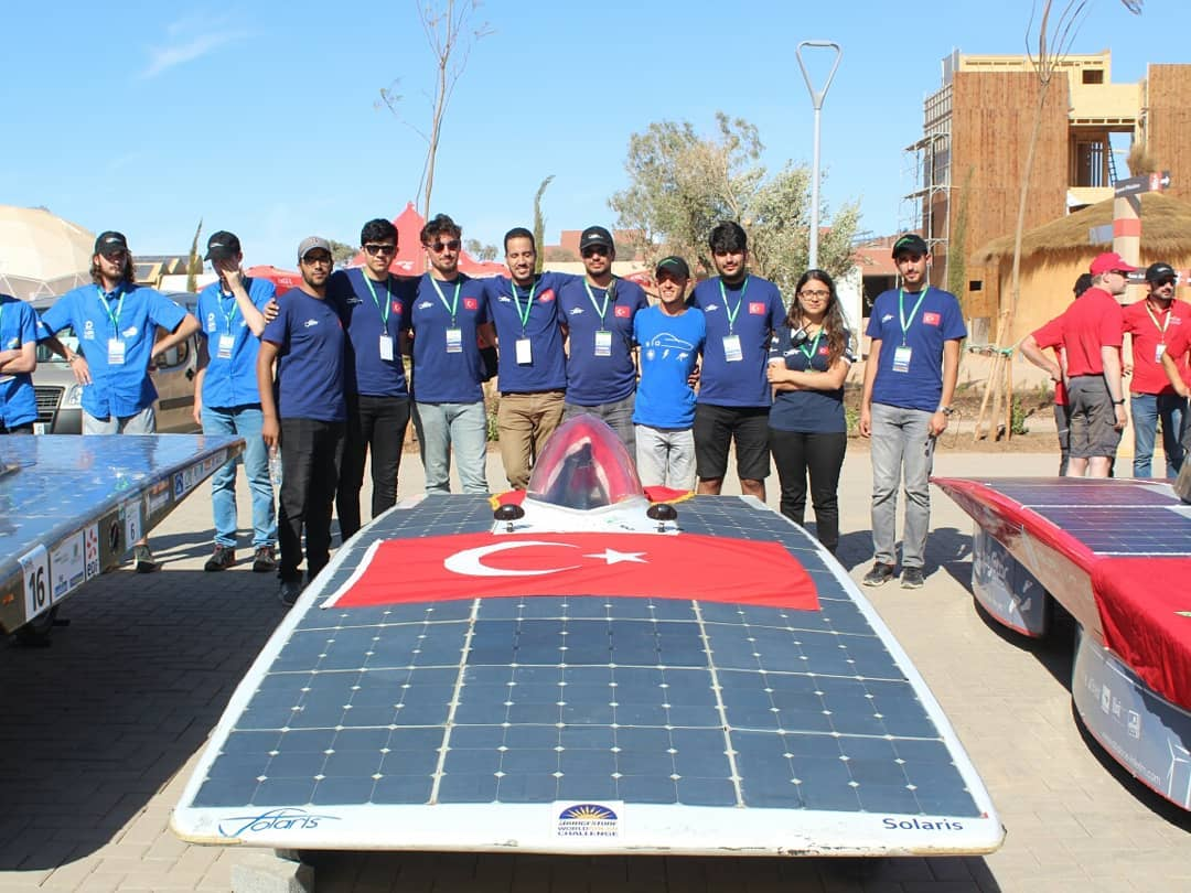 Solaris Solar Car team, DesTech Solaris (S8) solar vehicle.